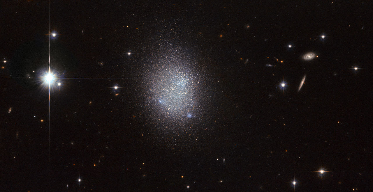 This NASA/ESA Hubble Space Telescope image shows a galaxy known as UGC 11411. It is a galaxy type known as an irregular blue compact dwarf (BCD) galaxy. BCD galaxies are about a tenth of the size of a typical spiral galaxy such as the Milky Way, and are made up of large clusters of hot, massive stars that ionise the surrounding gas with their intense radiation. Because these stars are so hot they glow brightly with a blue hue, giving galaxies like UGC 11411 their characteristic blue tint. With these massive stars being less than 10 million years old, they are very young compared to stellar standards. They were created during a starburst, a galaxy-wide episode of furious star formation. UGC 11411 in particular has an extremely high star formation rate, even for a BCD galaxy. Unusually for galaxies with such intense star-forming regions, BCDs don’t contain either a lot of dust, or the heavy elements that are typically found as trace elements in recently formed stars, making their composition very similar to that of the material from which the first stars formed in the early Universe. Because of this astronomers consider BCD galaxies to be good objects to study to improve our understanding of primordial star-forming processes. The bright stars in the image are foreground stars in our own Milky Way galaxy.